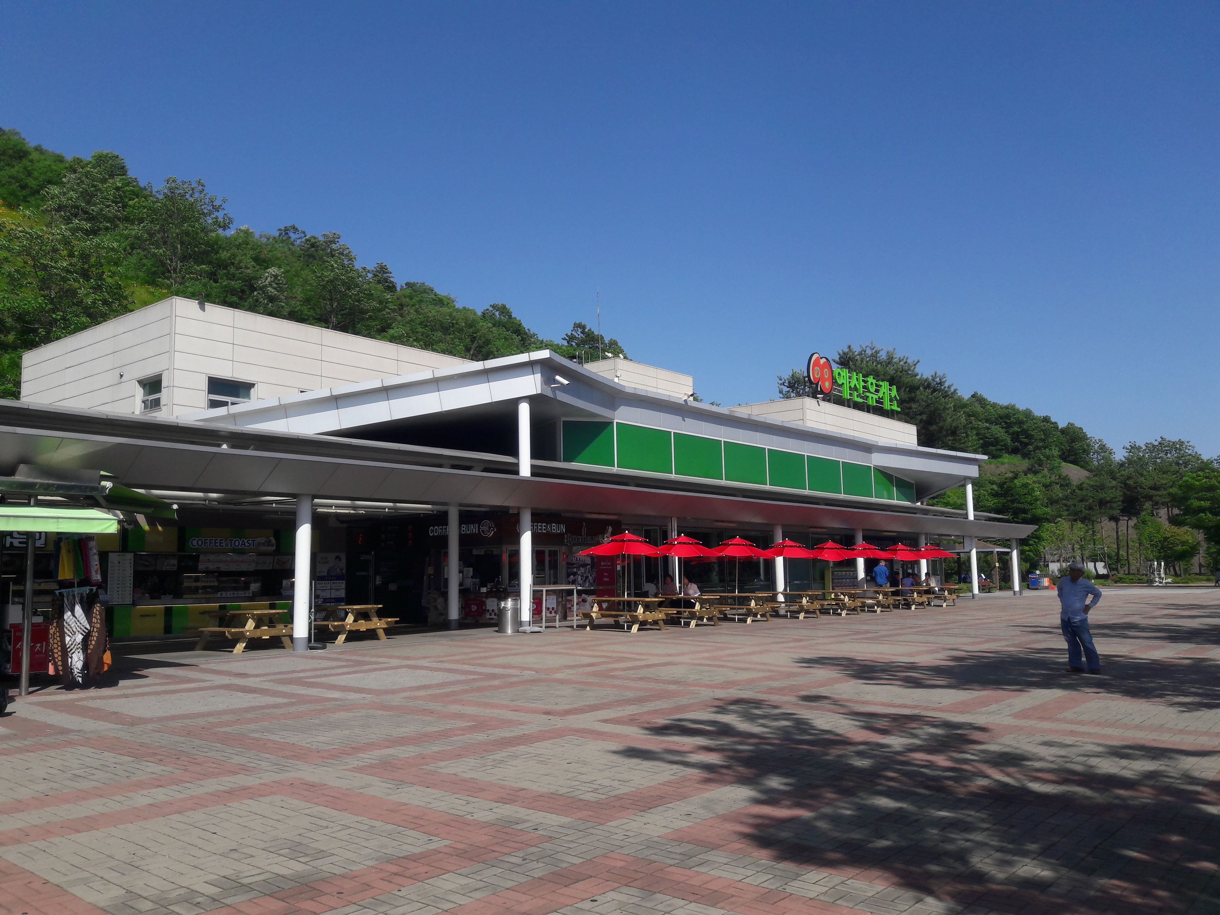 Yesan rest area